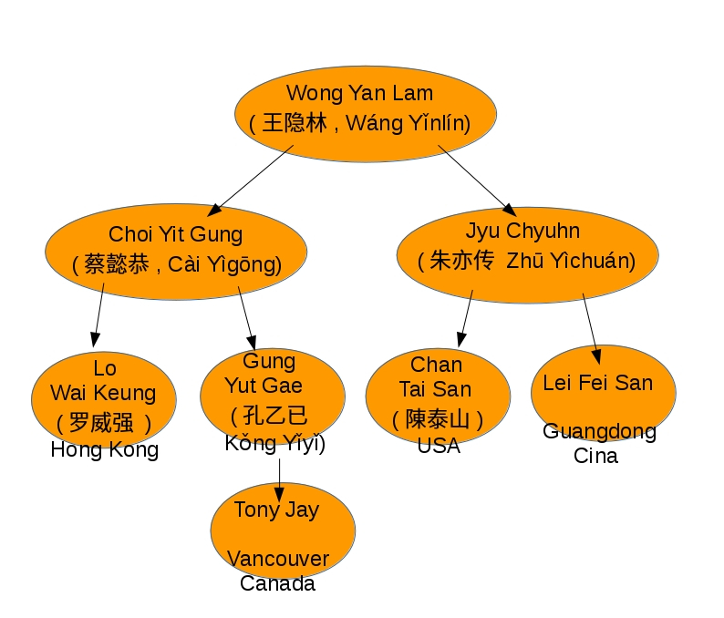 Lama Pai Kung Fu Lineage